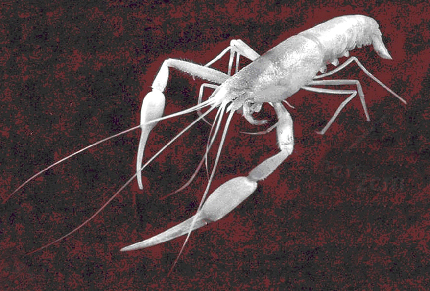 Invertebrates from Ayyalon Cave, Israel. Typhlocaris ayyaloni (Photo D. Darom)